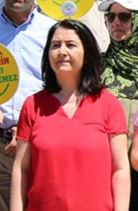 Members of the Turkish Peoples' Democratic Party (HDP) holding a 'conscience and justice watch' in Diyarbakır